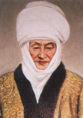 Kurmandjan Datca, the Kyrgyz government and military activist.